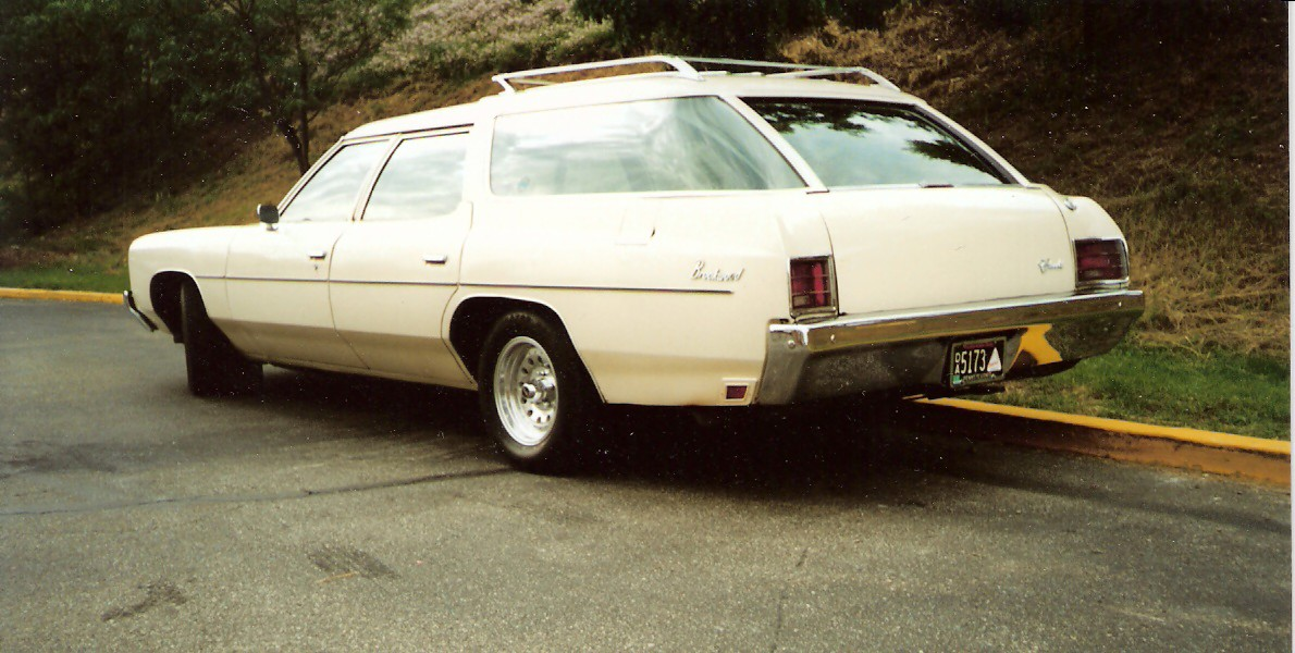 1972 Chevrolet Brookwood that I photographed in Pittsburgh, Pennsylvania in June 2000.